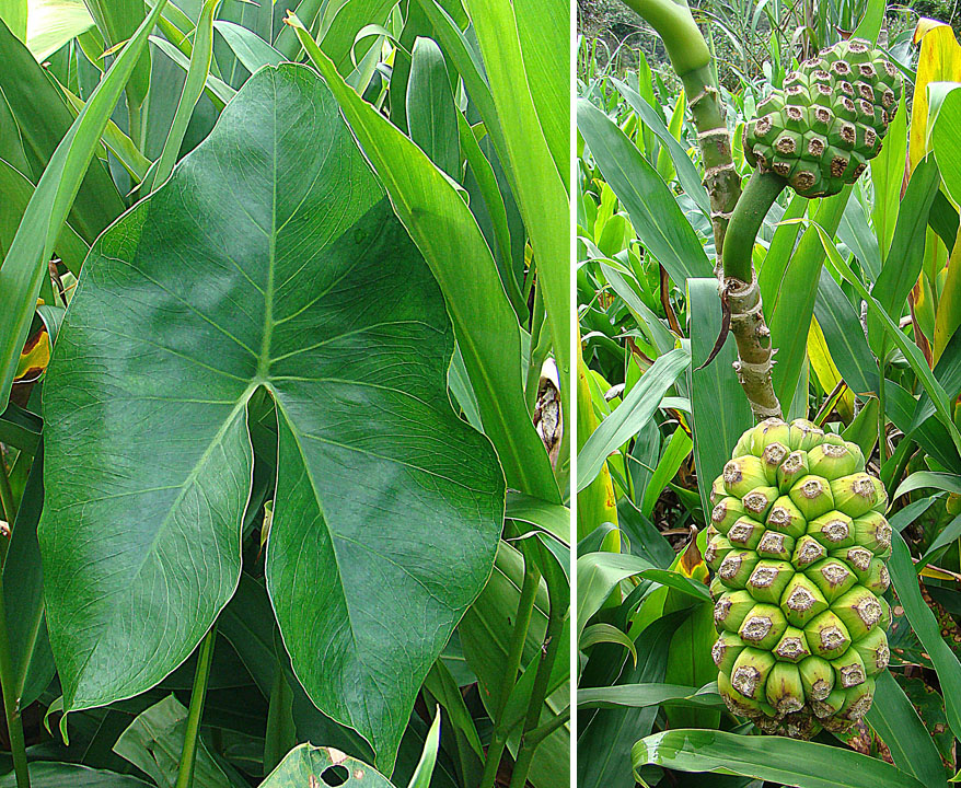 From a mangrove zone in northwestern Panama. Plant is an insect repellant, and fruit is edible. In context at